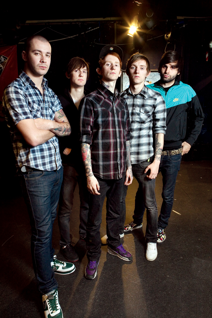 Gallows (band) posing for the camera